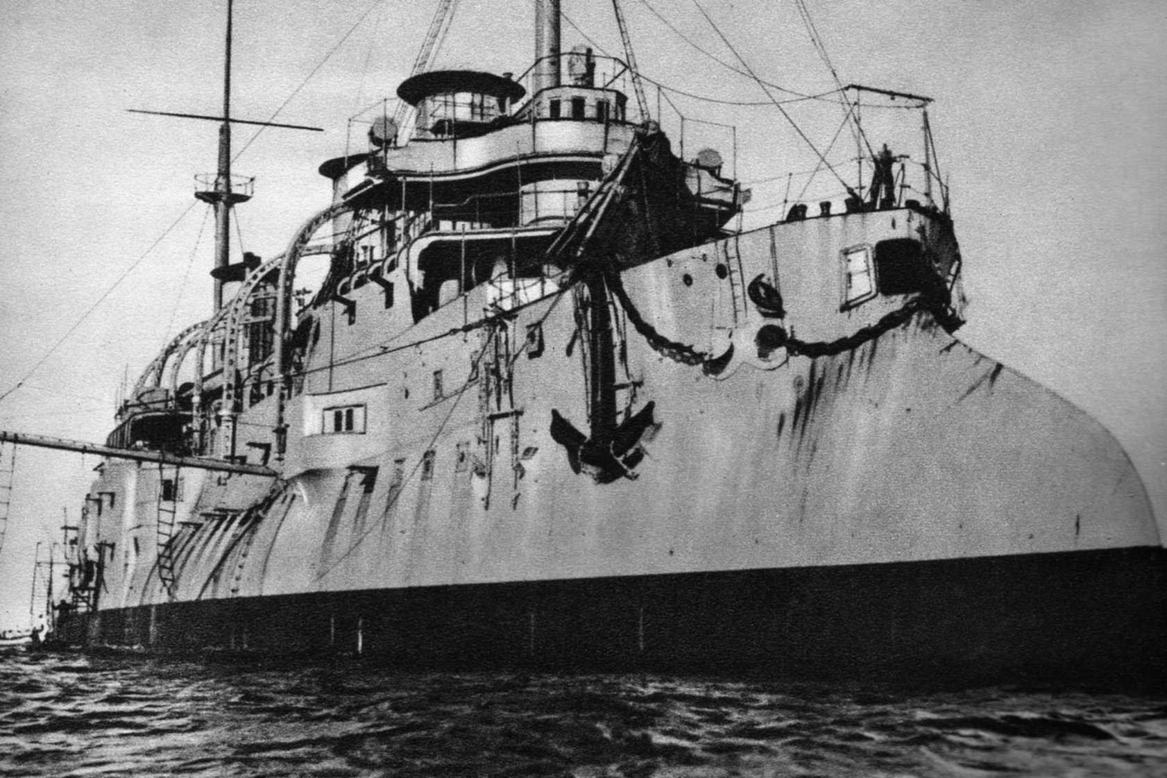 Hulk-cruiser ORP Baltyk in Gdynia (ex French cruiser d'Entrecasteaux)